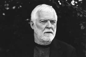 Douglas Kent Hall photograph copyright Devon Hall